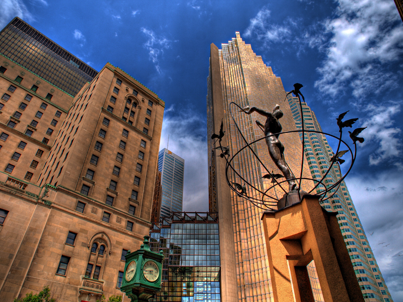 Statue titled, Monument to Multiculturalism by Francesco Pirelli, in front of Union Station, Toronto, Ontario, Canada. 5 exp hdr